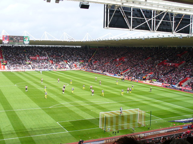 Match-day at St Mary's Stadium Southampton playing Derby County in the Saints' new stadium at Northam, Southampton.